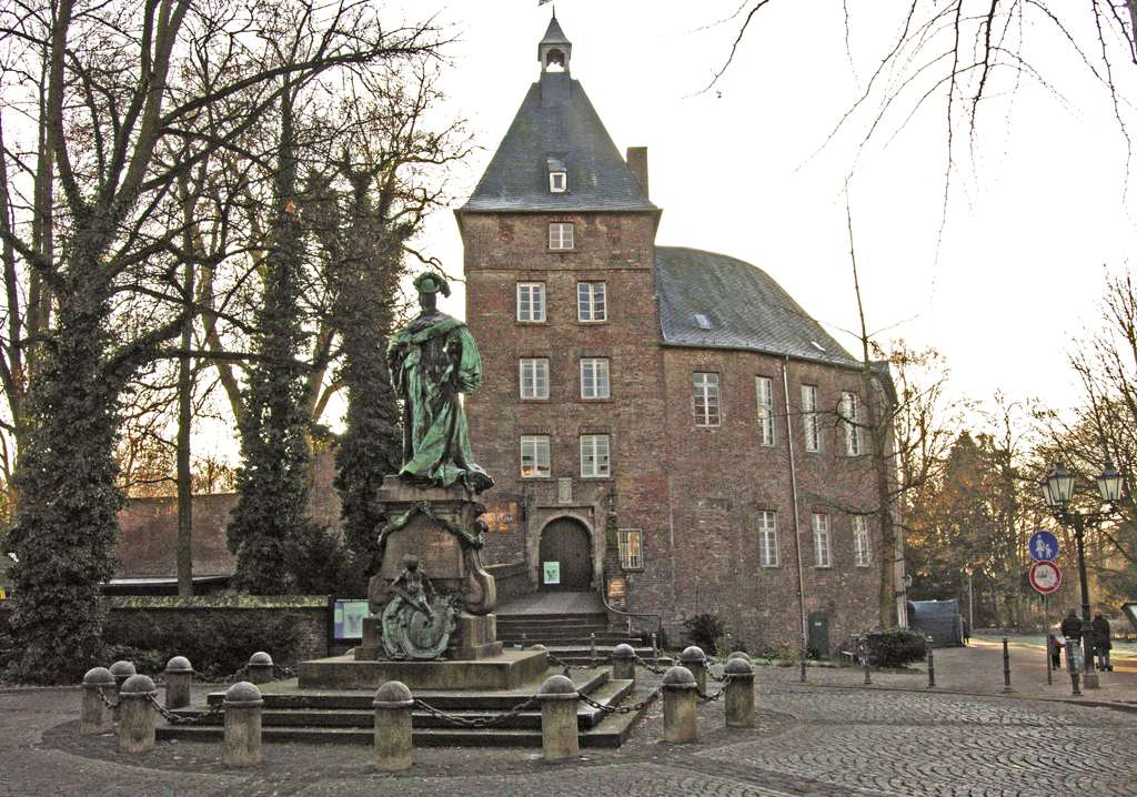 Castle of Moers